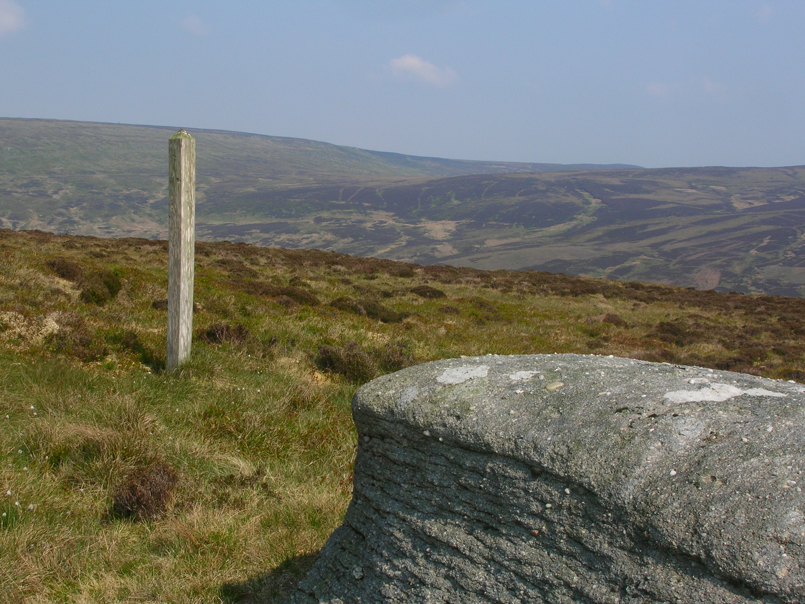 According to one calculation by the Ordnance Survey, the centre of Britain (including all islands) is located just to the east of Whitendale Hanging Stones in Lancashire. Presumably the stake marks the spot.